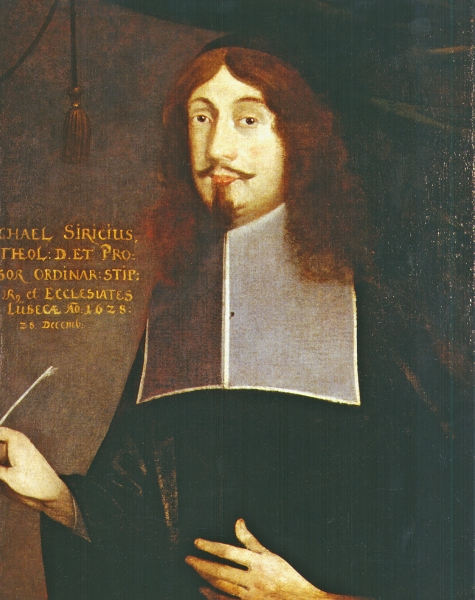 Portrait of Michael Siricius (Professor) as professor in Giessen